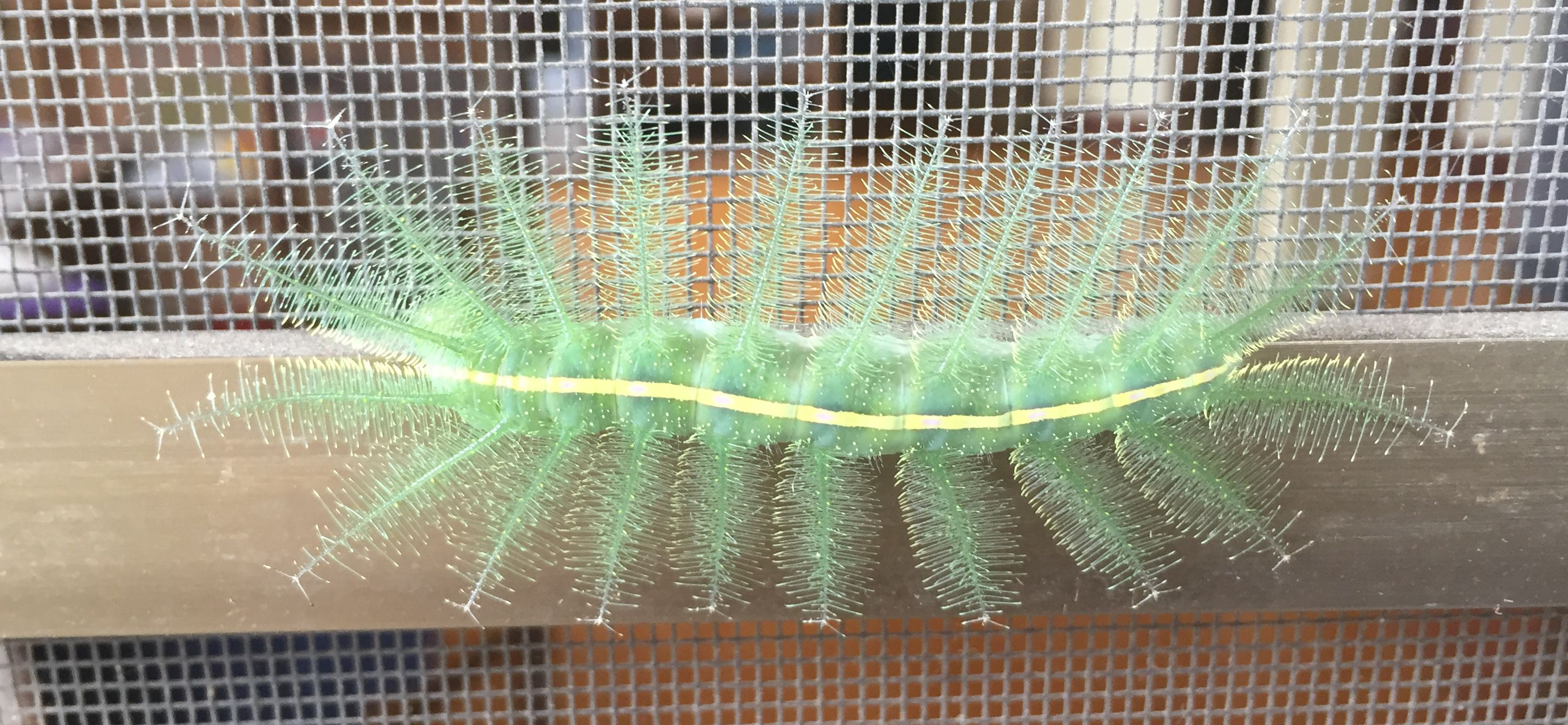 Baron Larva